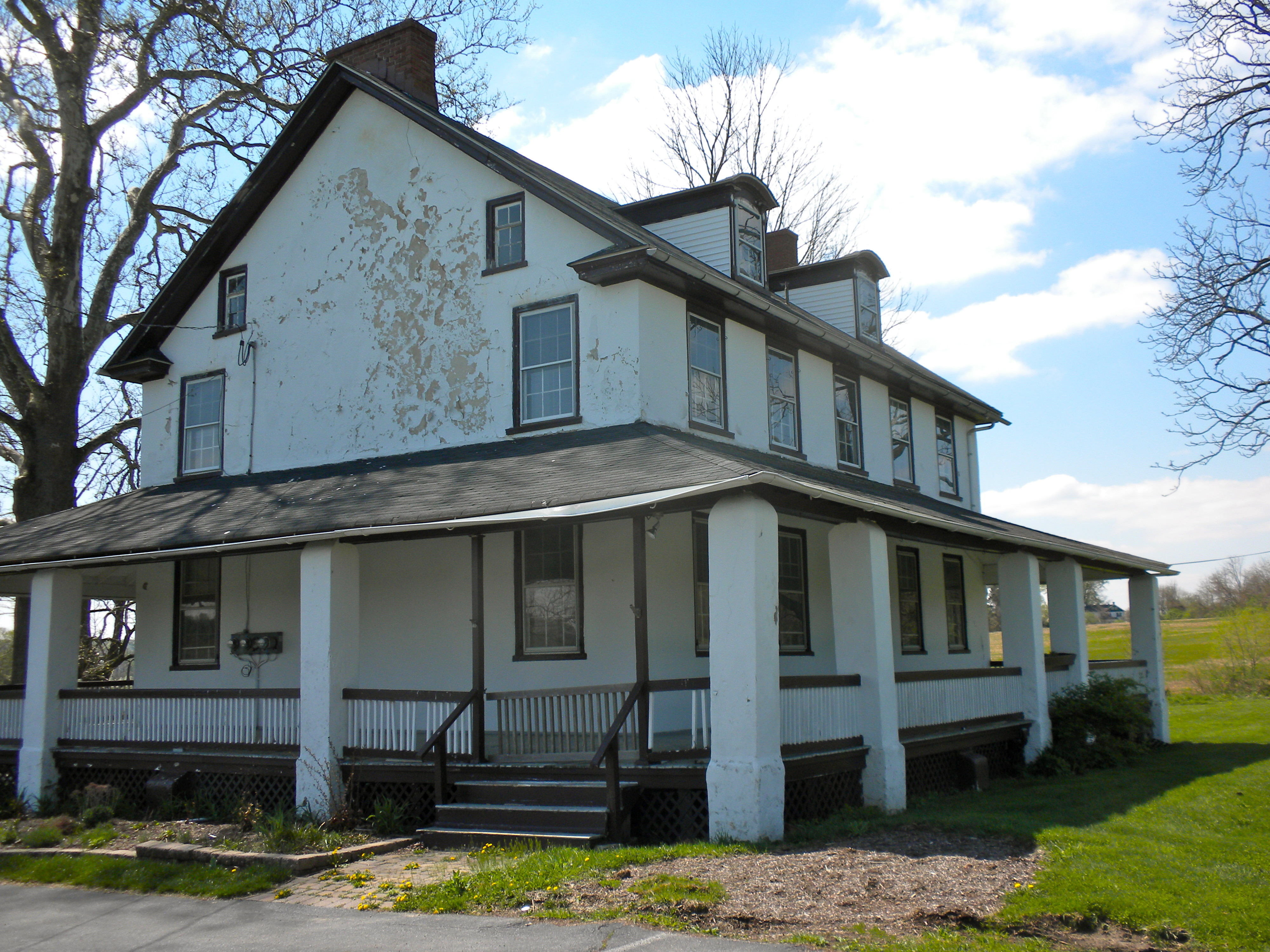 Benjamin Pennypacker House, on NRHP since August 2, 1984. At 800 East Swedesford Road (road goes back before the Revolution) in West Whiteland Township, Chester County, PA. Township park in development around the house.